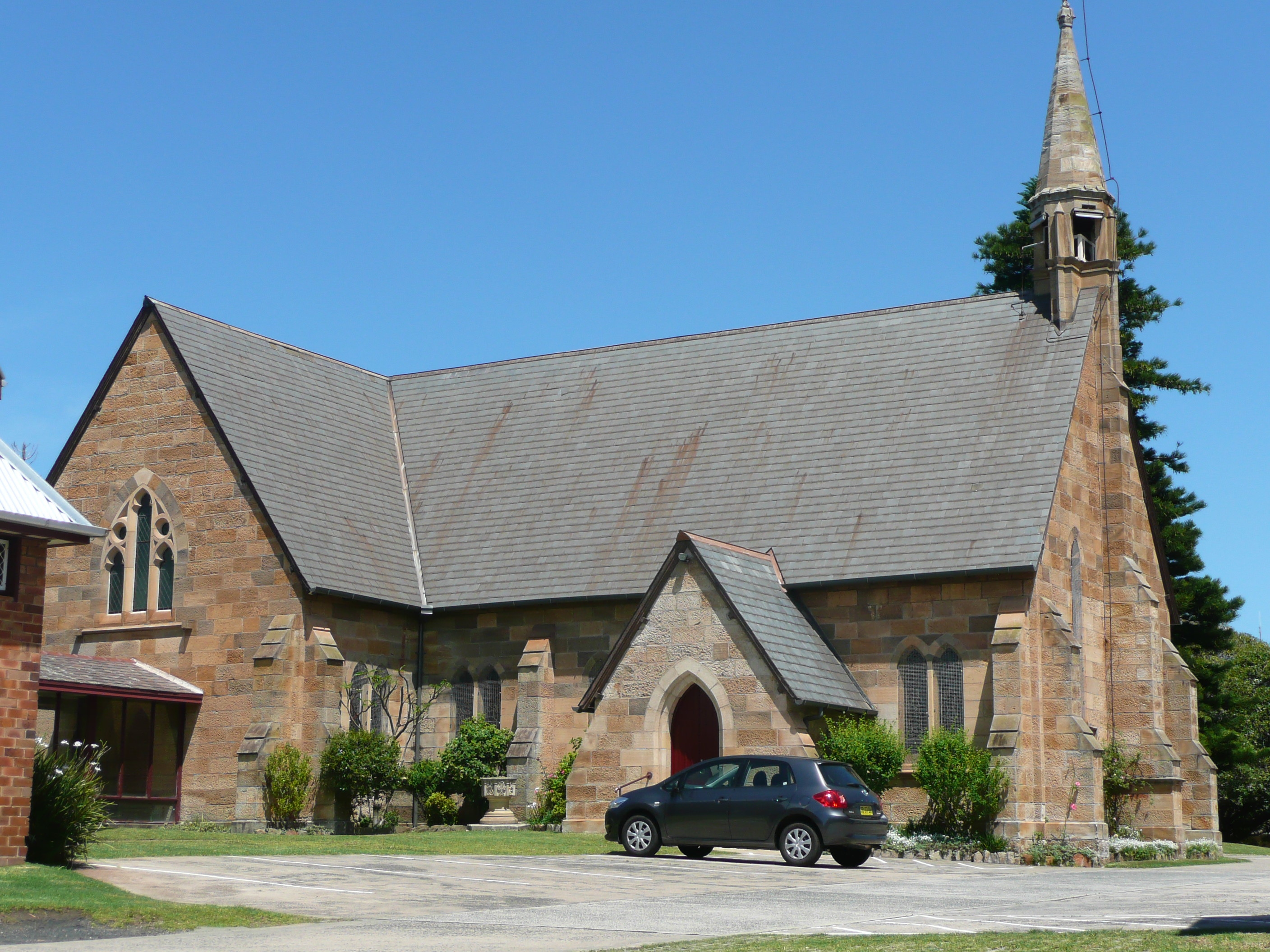 St Michael and All Angels, Pro-cathedral, Wollongong, australia. Architect: Edmund Blacket. This small Gothic Revival parish church is the central church of one of NSW's largest cities and functions as the southernmost of several Pro-cathedrals, the seat of a regional bishop within the huge Sydney Diocese.